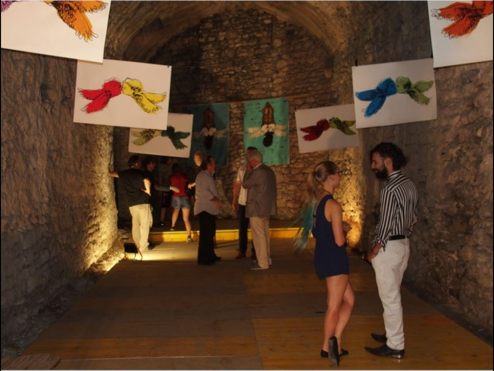 Art gallery inside da vinci's rivellino